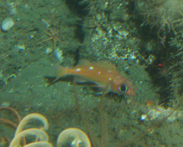 Swordspine rockfish (Sebastes ensifer) observed off Point Sur during a sanctuary seafloor monitoring survey using the Delta submersible.